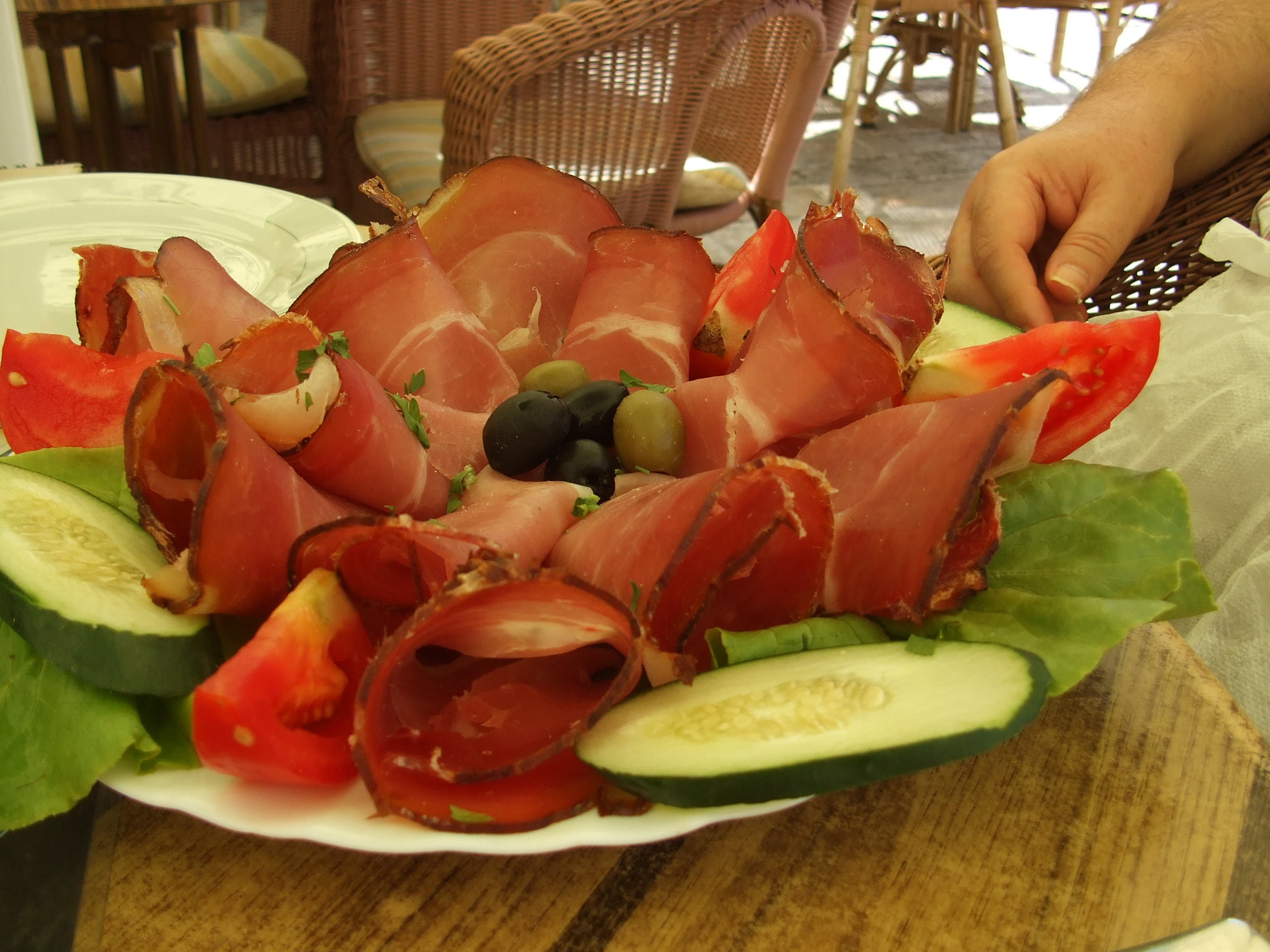 Njequdi Prust - Apparently Montenegrian Prust is the best - Budva Njeguški Pršut